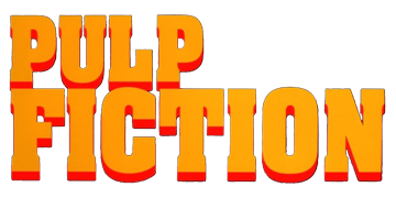 Logo of Pulp Fiction, a Quentin Tarantino's movie.